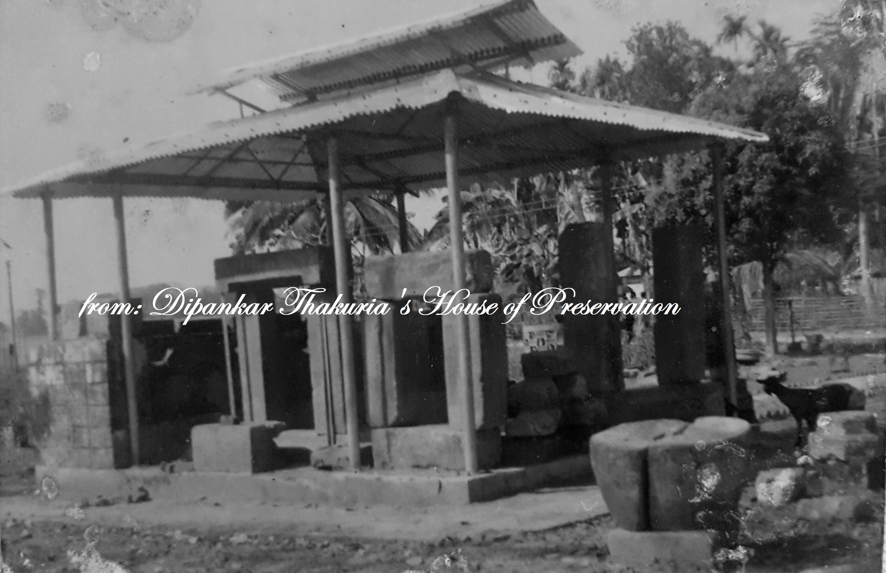 Ruins of Merghar, Mathpara Village Near Chhaygaon Town.